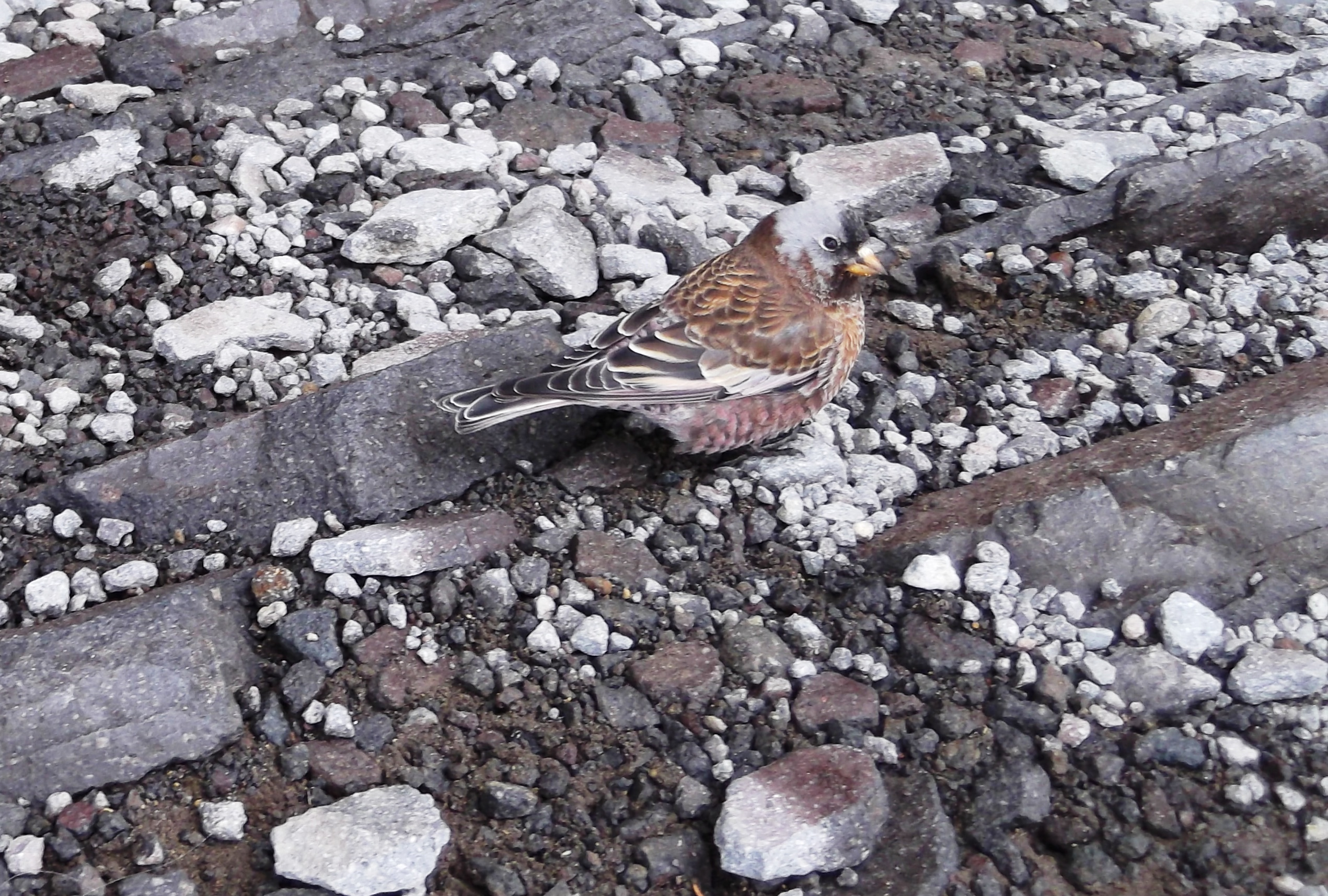 Gray-crowned Rosy Finch Leucosticte tephrocotis, Skyline Trail, Mount Rainier National Park, Washington, USA